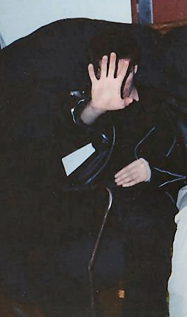 James "Kibo" Parry, ~1989